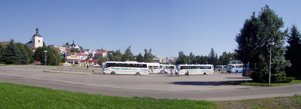 Bus station in Turnov, Semily District, Czech Republic.